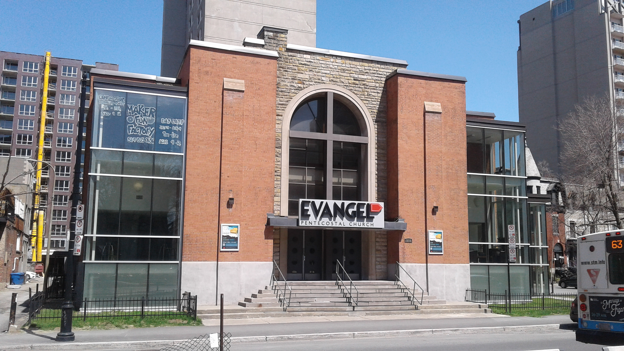 Evangel Pentecostal Church Main Campus: 1235 Lambert-Closse, Montreal